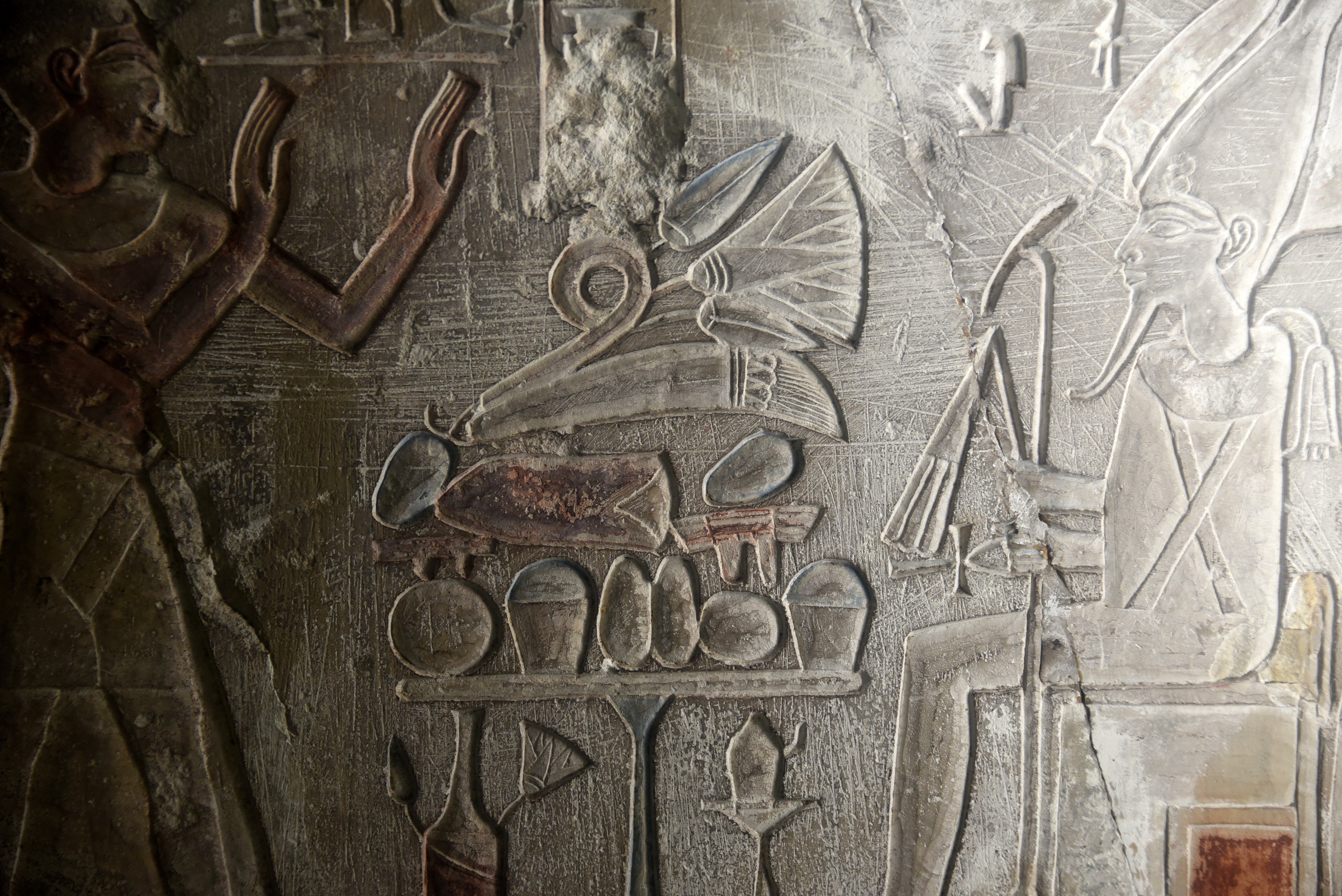 The name of god Amun was erased, probably during Amarna era of Akhenaten. Detail of stela of Djeserka, a doorkeeper of the Amun temple at Thebes. From Thebes, Egypt. The Petrie Museum of Egyptian Archaeology, London. With thanks to the Petrie Museum of Egyptian Archaeology, UCL.